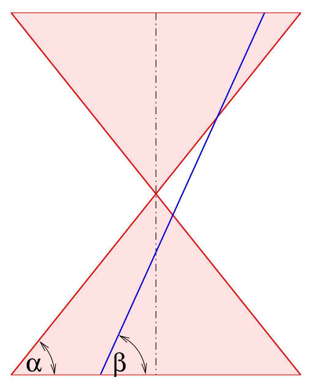 Definition of eccentricity at a cone